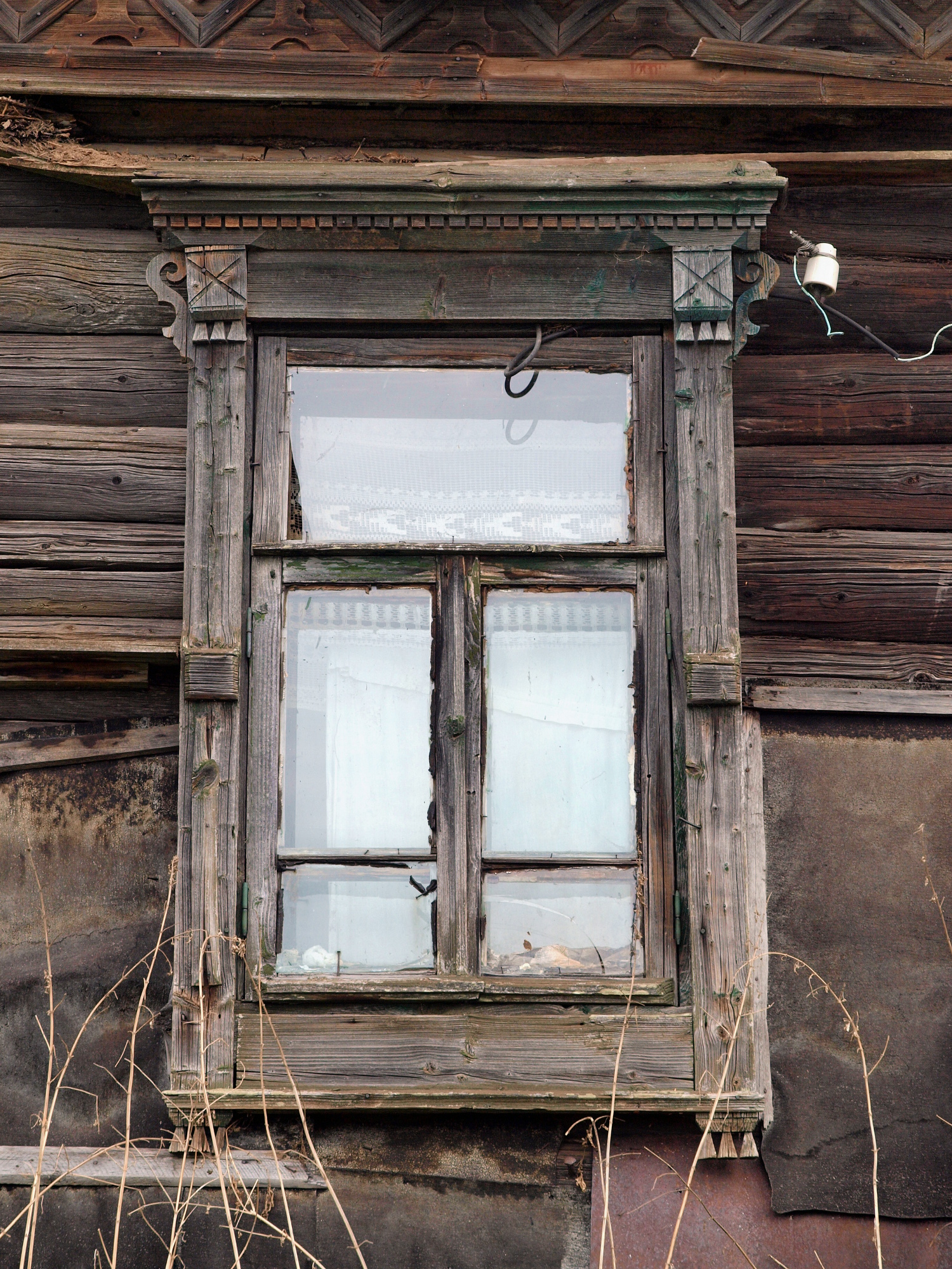 Abandoned house in Nikolskoye (former Nikolskoye-Dolgorukovo), Ruzsky District, Moscow Oblast.